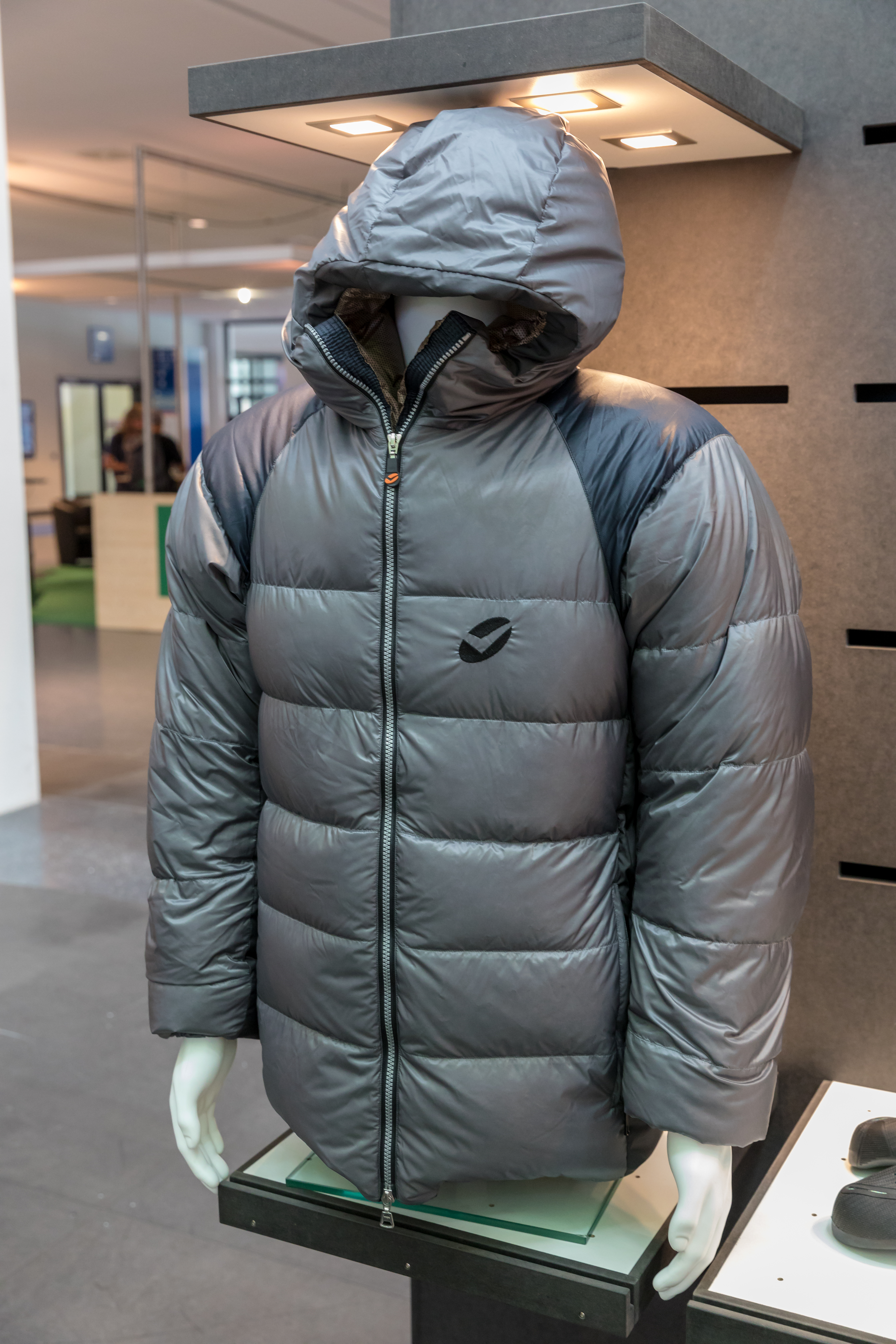 Down jacket Valandre Troll, OutDoor 2018